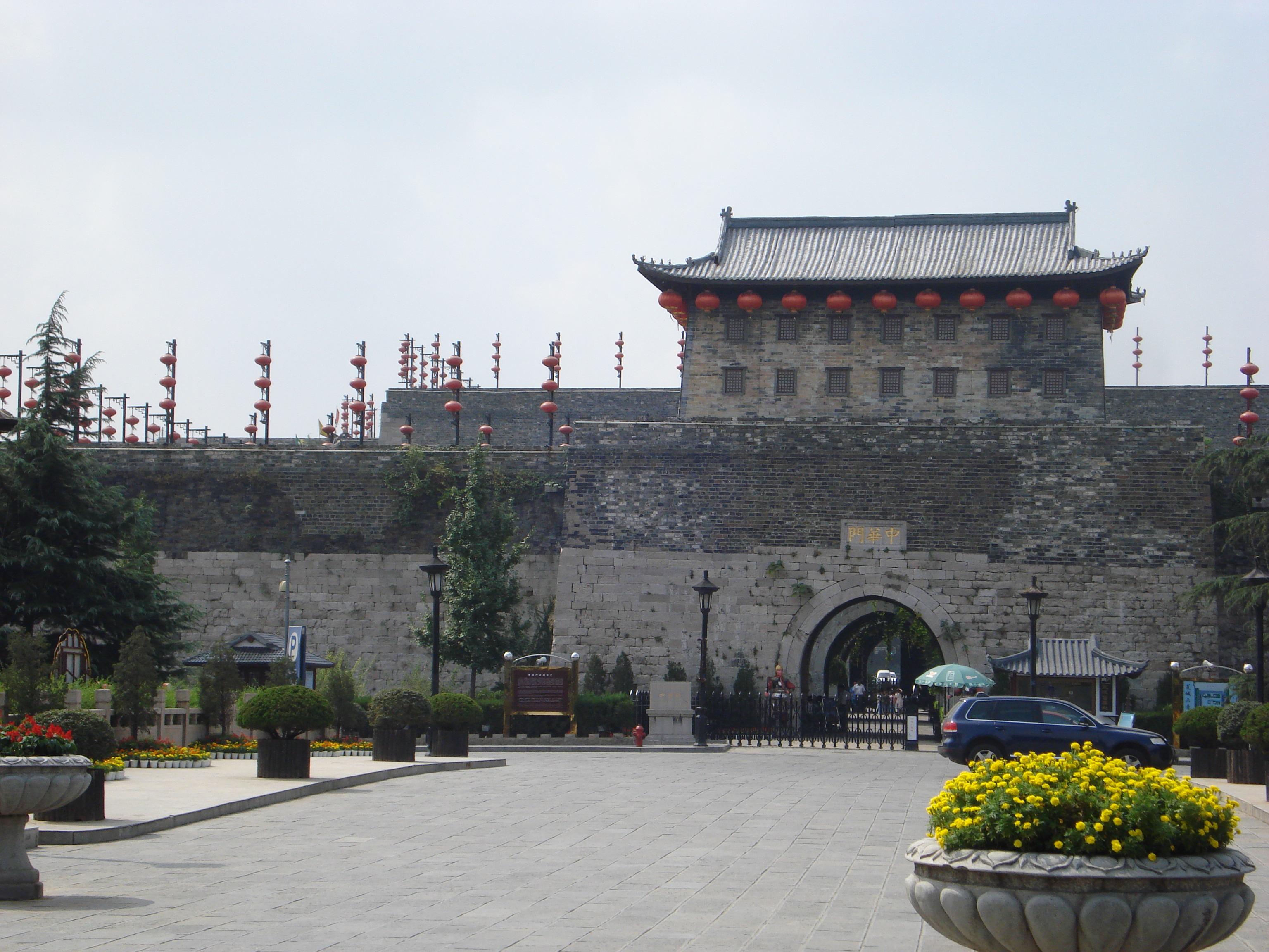 Zhonghua Gate, the south gate, part of the walled city Nanking. 18. September 2008. Photo by: Jaksa P.